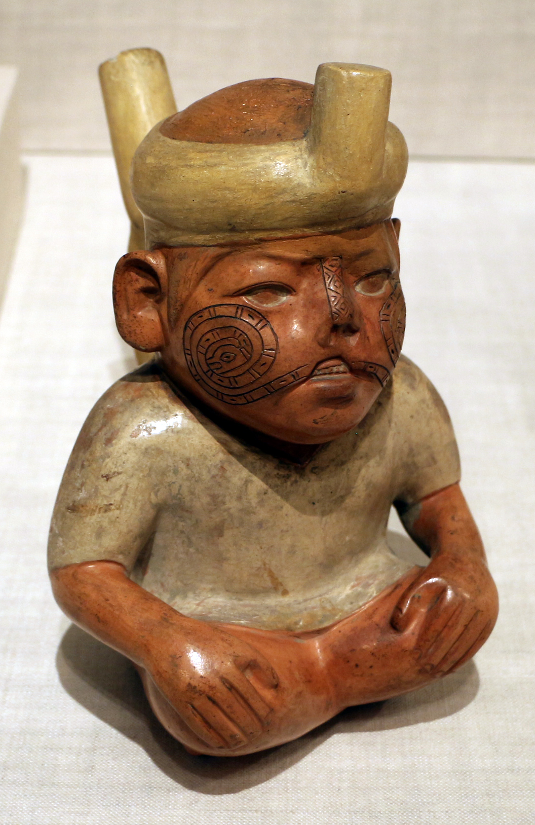 Pre-Columbian art in the Art Institute of Chicago